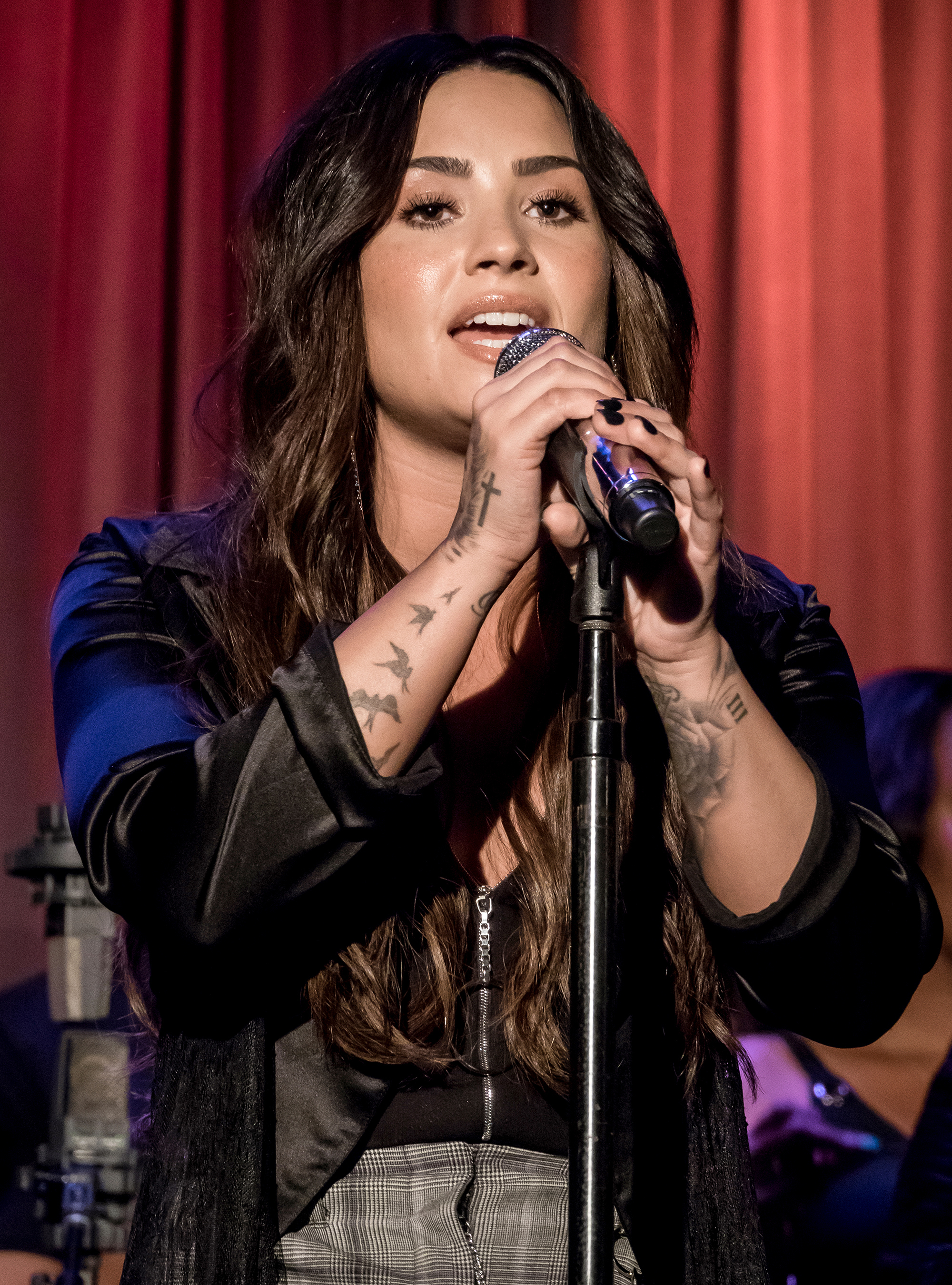 Demi Lovato speaking and performing live at the Grammy Museum in downtown Los Angeles, California, on Saturday, September 16, 2017. Part of the museums "The Drop" series of artist interviews/performances.